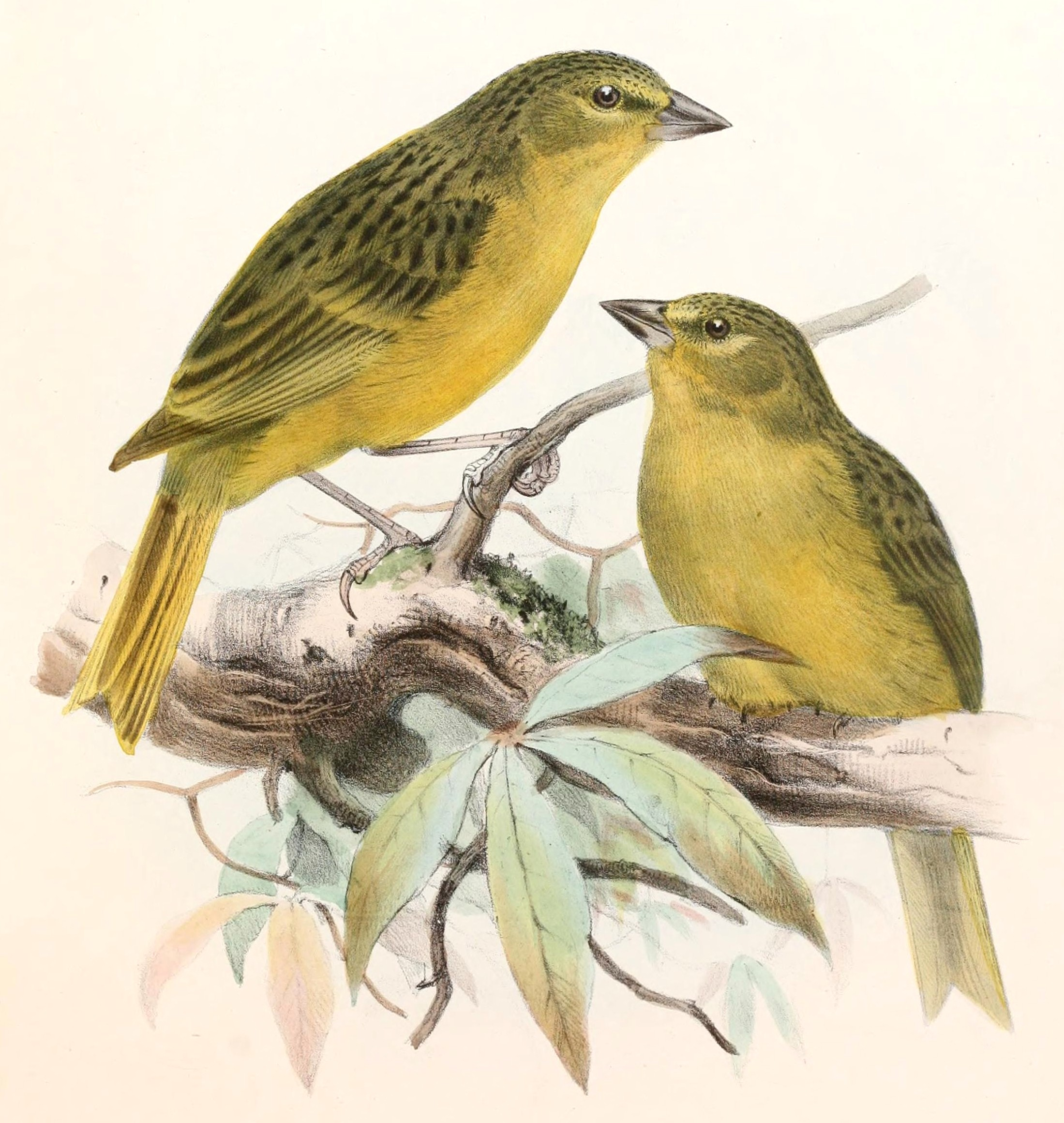 « Nesospiza acunhae » = Nesospiza acunhae (Inaccessible Island Finch)